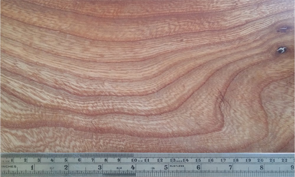 Elm wood grain